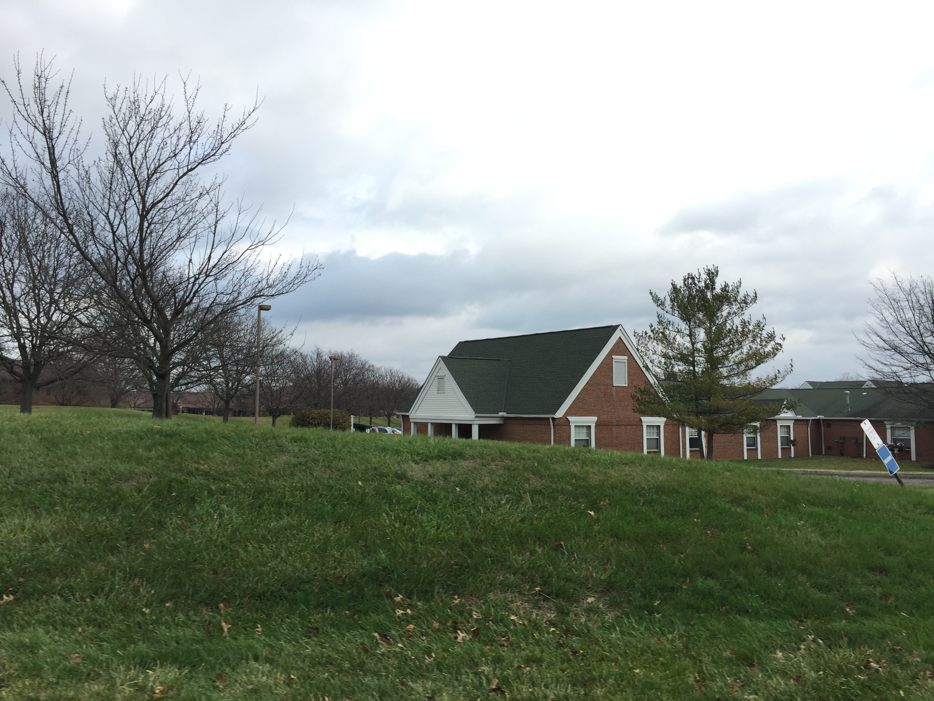 Eastern Side of Olentangy Commons